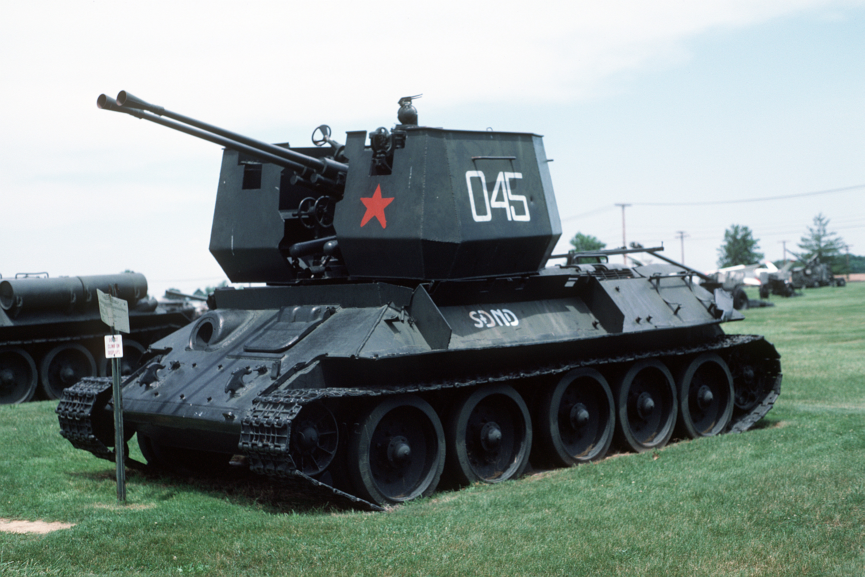 A People's Republic of China Type 65 37mm air defense gun system on display at the U.S. Army Aberdeen Proving Grounds (Aberdeen, Maryland, USA). It is a Chinese Type 65 anti-aircraft gun mounted on a Soviet T-34 tank body